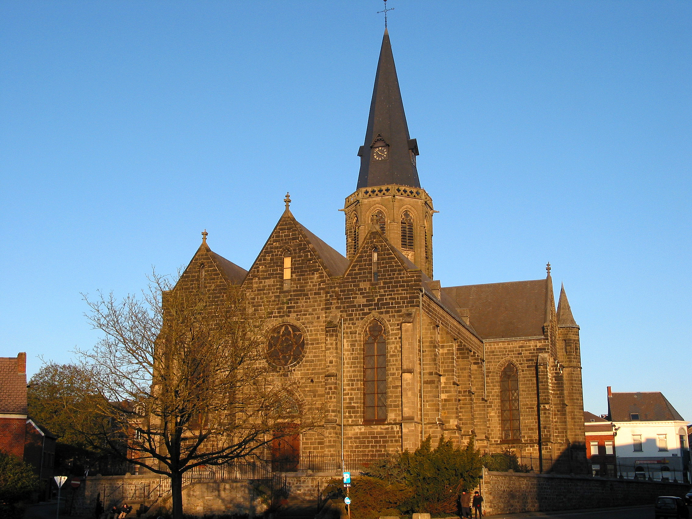 Le Roeulx (Belgium), the St. Nicolas church (1869).